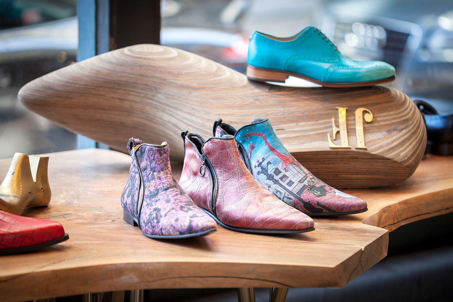 John Fluevog Shoes, 37 Main Street, Brooklyn NY (Photo gallery of DUMBO, Brooklyn)